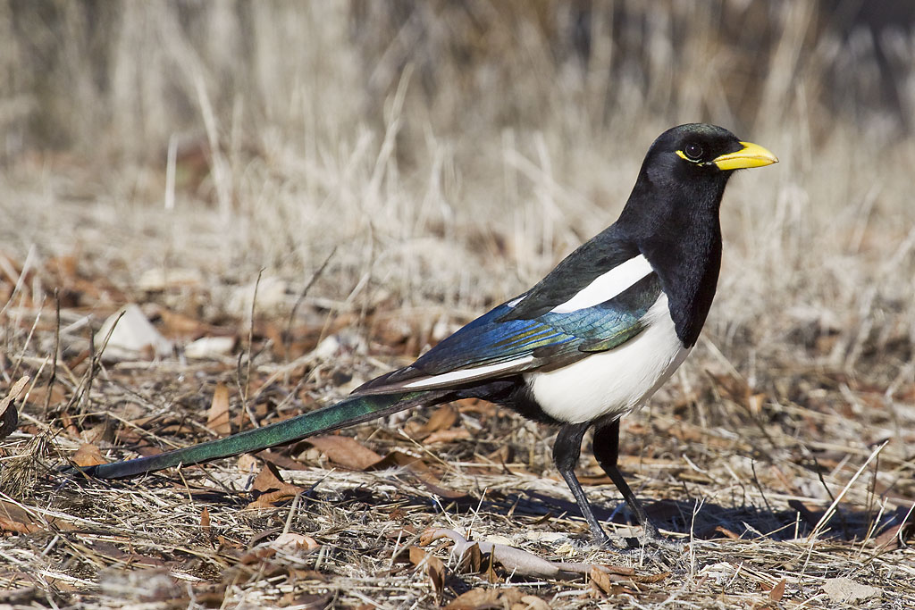 Yellow-billed Magpie (Pica nuttalli). Lake San Antonio, United States.